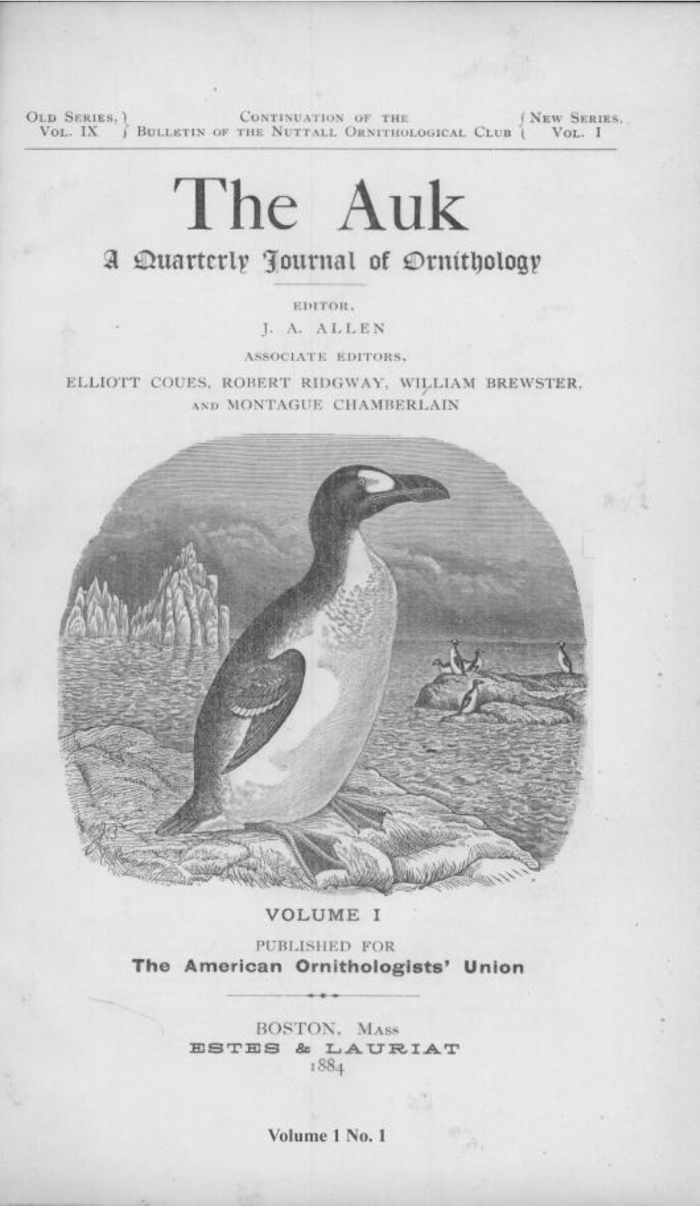 January 1884 cover of The Auk journal